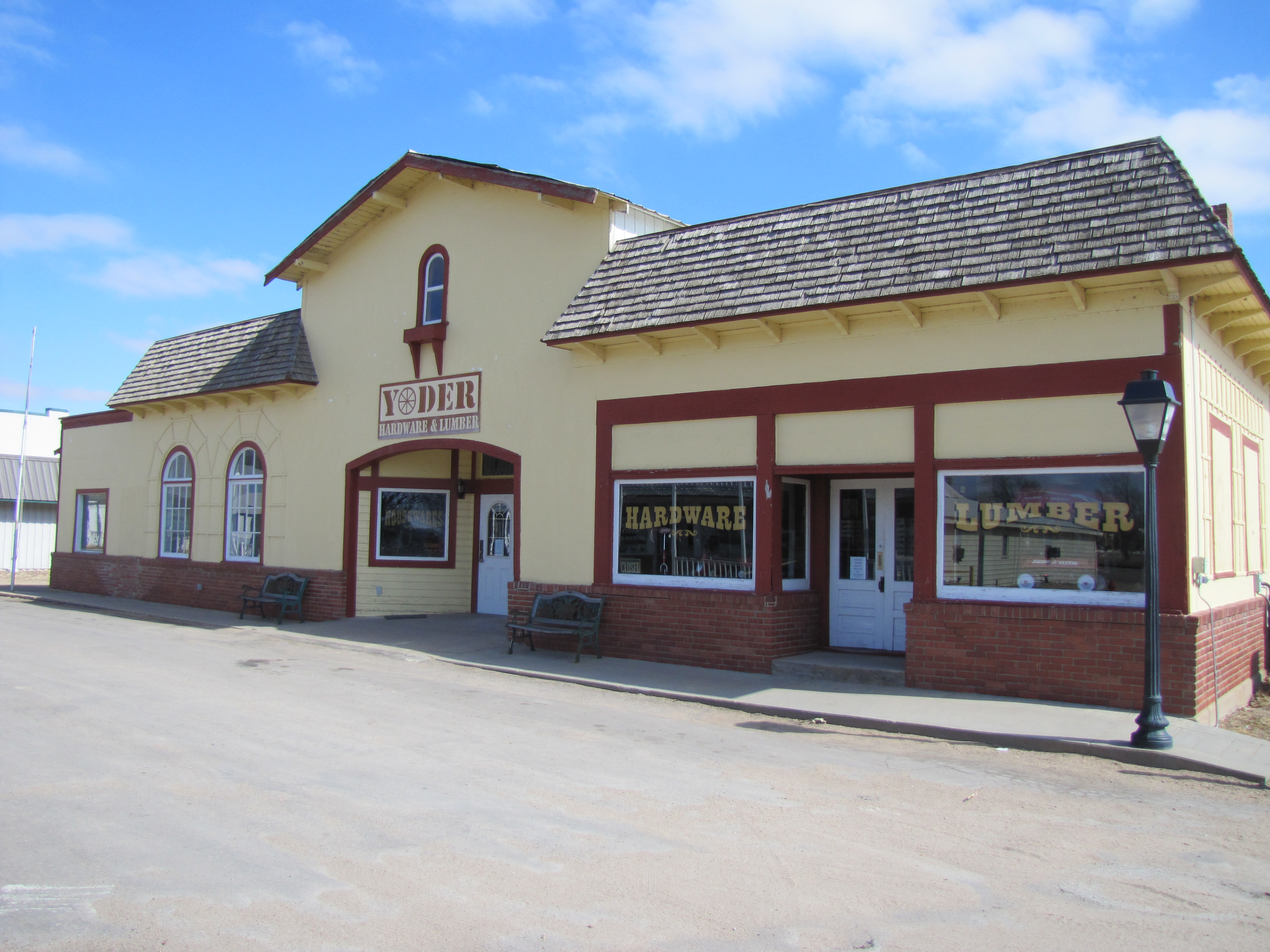 Hardware & Lumber (1928). Yoder, KS, USA